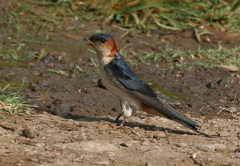 Red-rumped Swallow Cecropis daurica in Parli, Maharashtra, India.